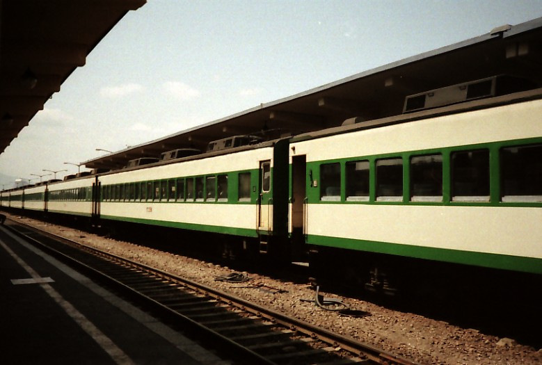 Coaches for Tong-il Express of former Korean National Railroad at Seoul station in Oct. 1988.